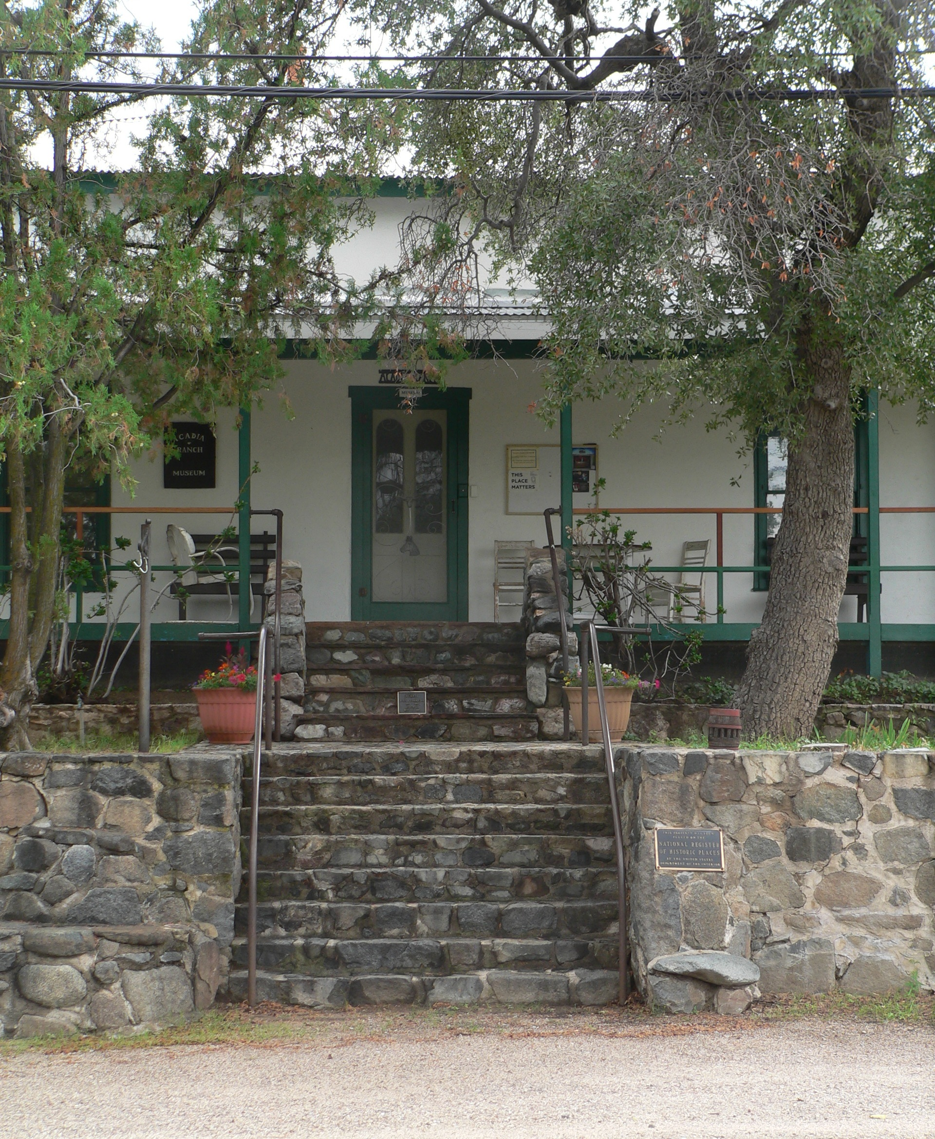 Acadia Ranch Museum, located at 825 E. Mt. Lemmon Highway, near the junction of Mt. Lemmon Hwy and American Avenue, in Oracle, Arizona. Center section; seen from the north.